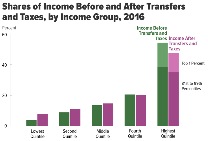 Shares of Income in the United States by quintile, before and after transfers, in 2016